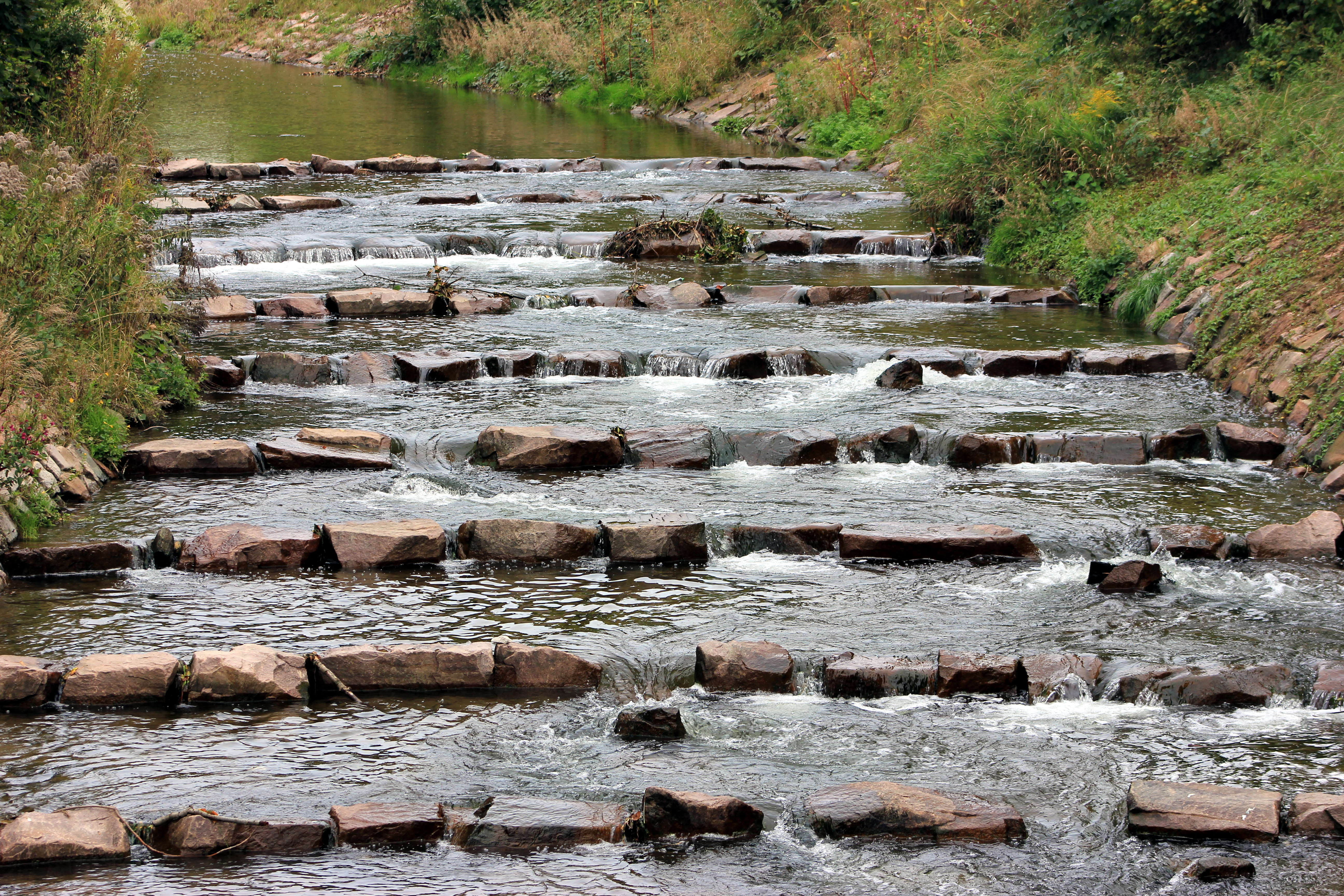 The river Zwönitz, in Chemnitz-Altchemnitz.